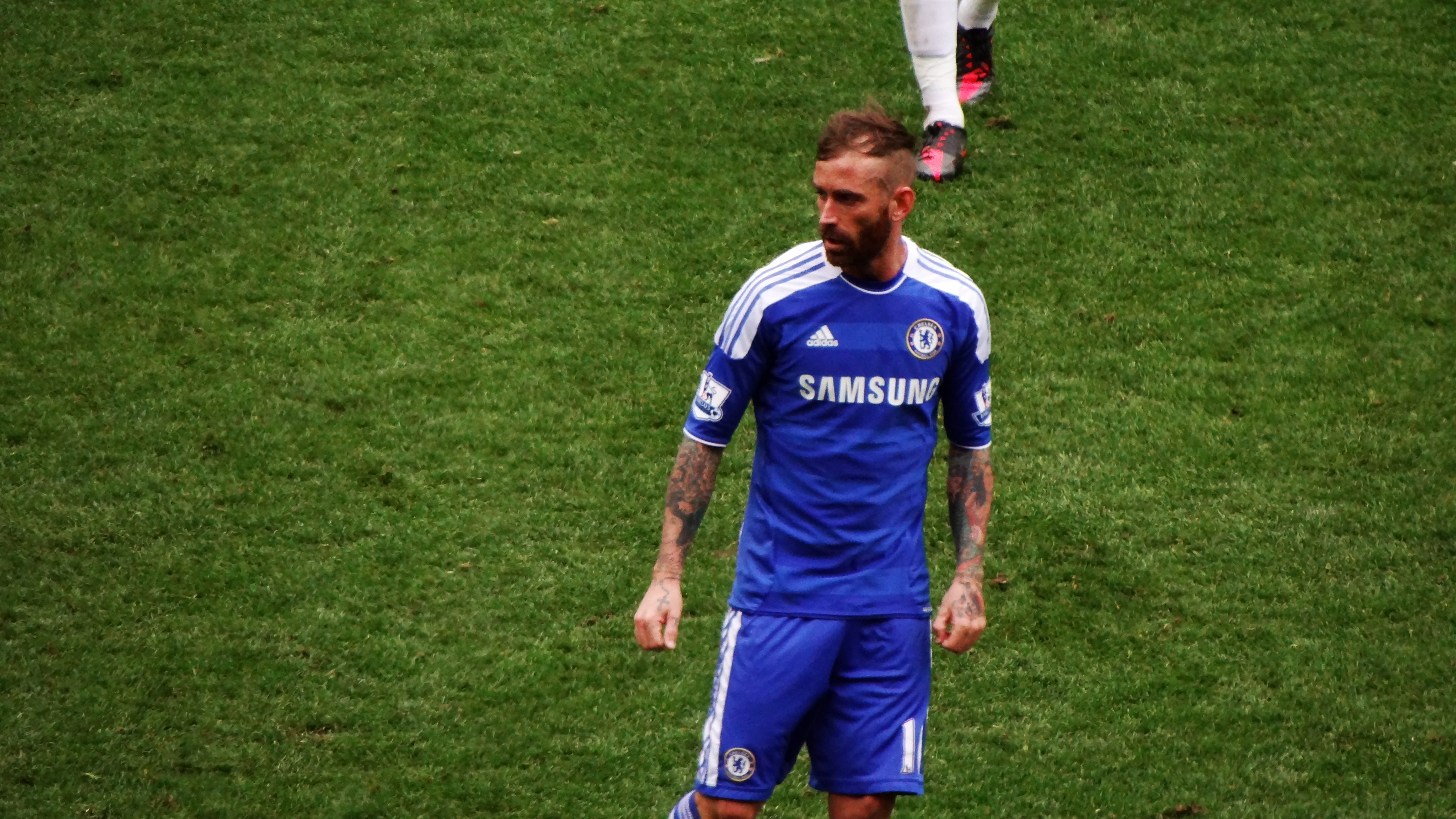 Meireles in 2011-12 season